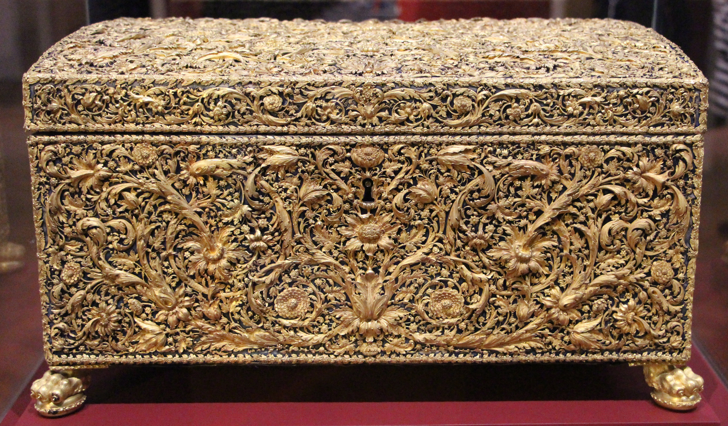 Decorative arts in the Louvre